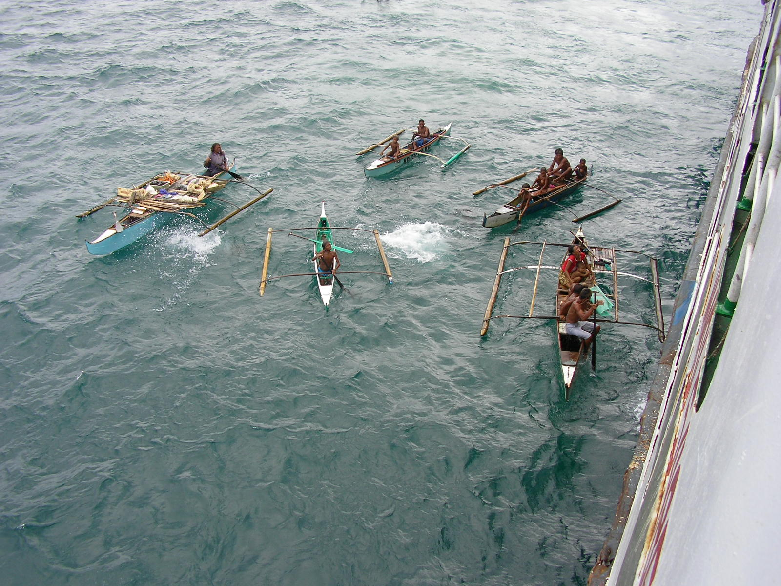 Badjaos are an ethnic group who have adapted to life in the sea. They are sometimes referred to as 'sea gypsies'. Poverty-stricken families living in coastal regions (oftentimes entirely in boats) often beg for spare change from ferry passengers in the Philippines. Passengers from ferry decks toss down coins to Badjaos in outrigger canoes who will then dive after the sinking money. Children as young as ten can be seen doing this alongside their parents. Long exposure to sun and seawater often give Badjaos characteristic light brown to blond hair.